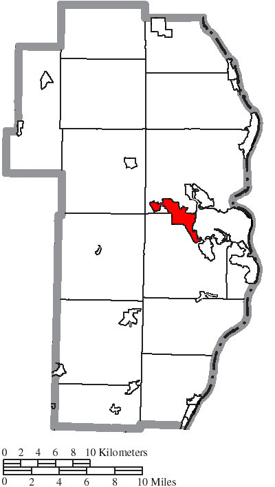 Map of the municipal and township boundaries of Jefferson County, Ohio, United States, as of the 2000 census, with the location of the village of Wintersville highlighted. Township borders are shown only in unincorporated areas in order to differentiate incorporated and unincorporated areas more clearly.